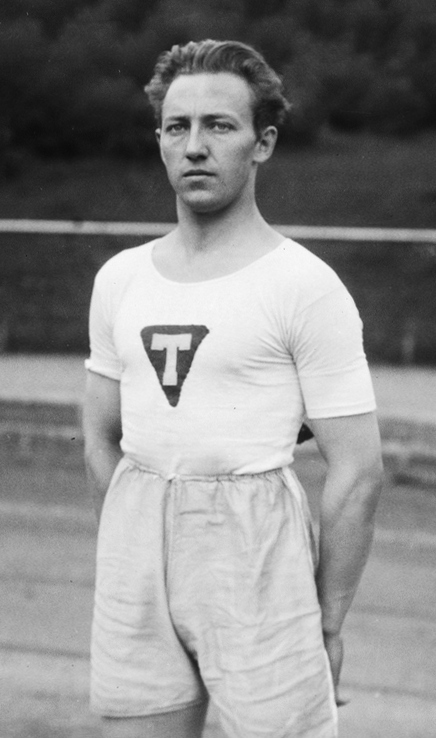 Norwegian athlete Sverre Hansen at Frogner stadion in Oslo, Norway